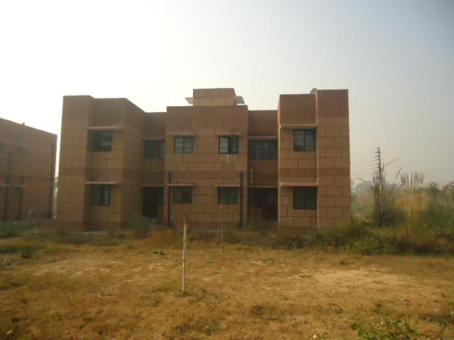 Teachers Quarters